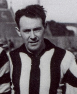 Photo of John McHale in 1944